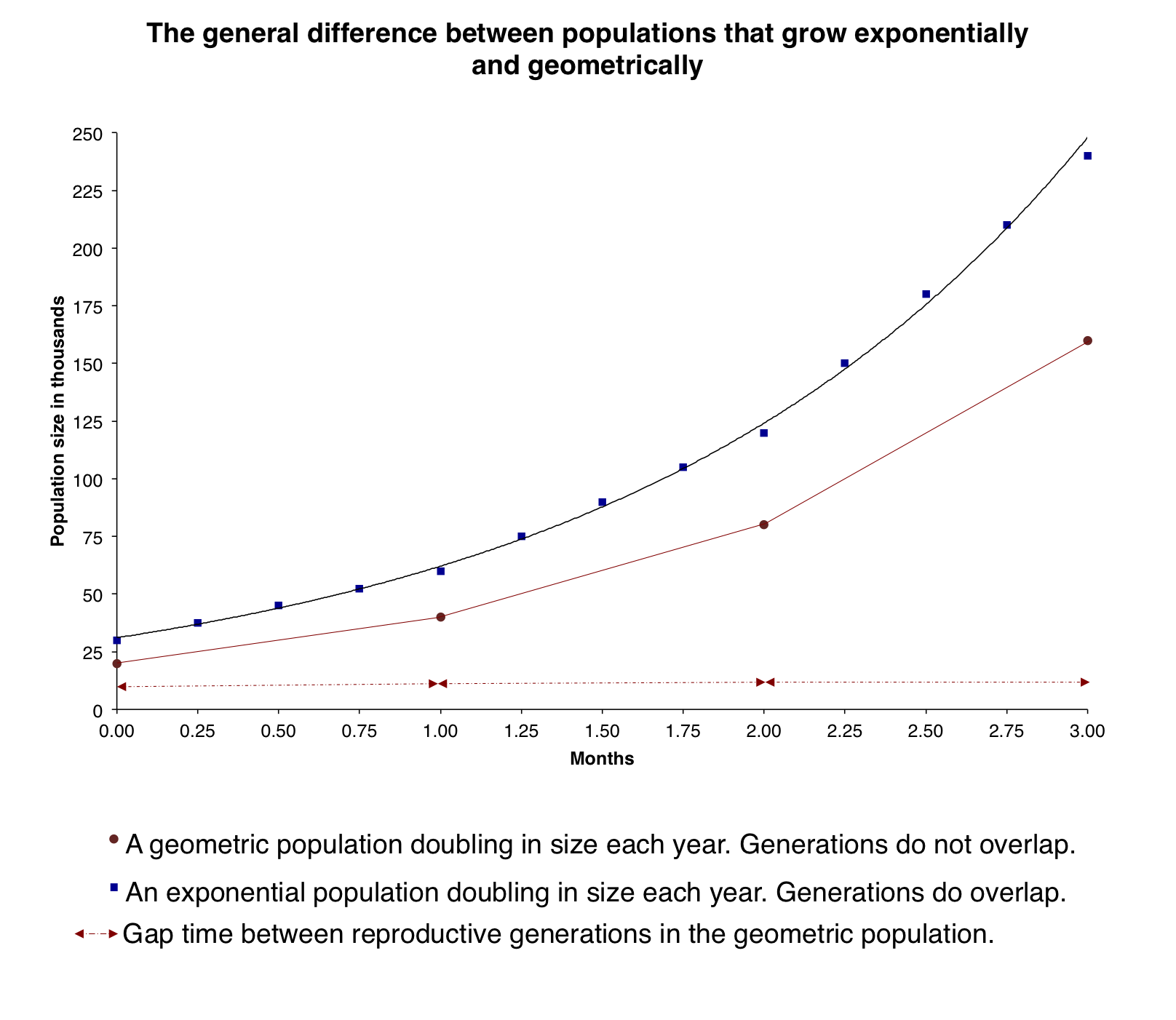 Geometric populations grow in reproductive generations between intervals of abstinence from reproduction. Exponential populations grow without designated periods for reproduction. Reproduction is a continuous process and generations of reproduction overlap. This graph illustrates two hypothetical populations - one population growing periodically (and therefore geometrically) and the other population growing continuously (and therefore exponentially).